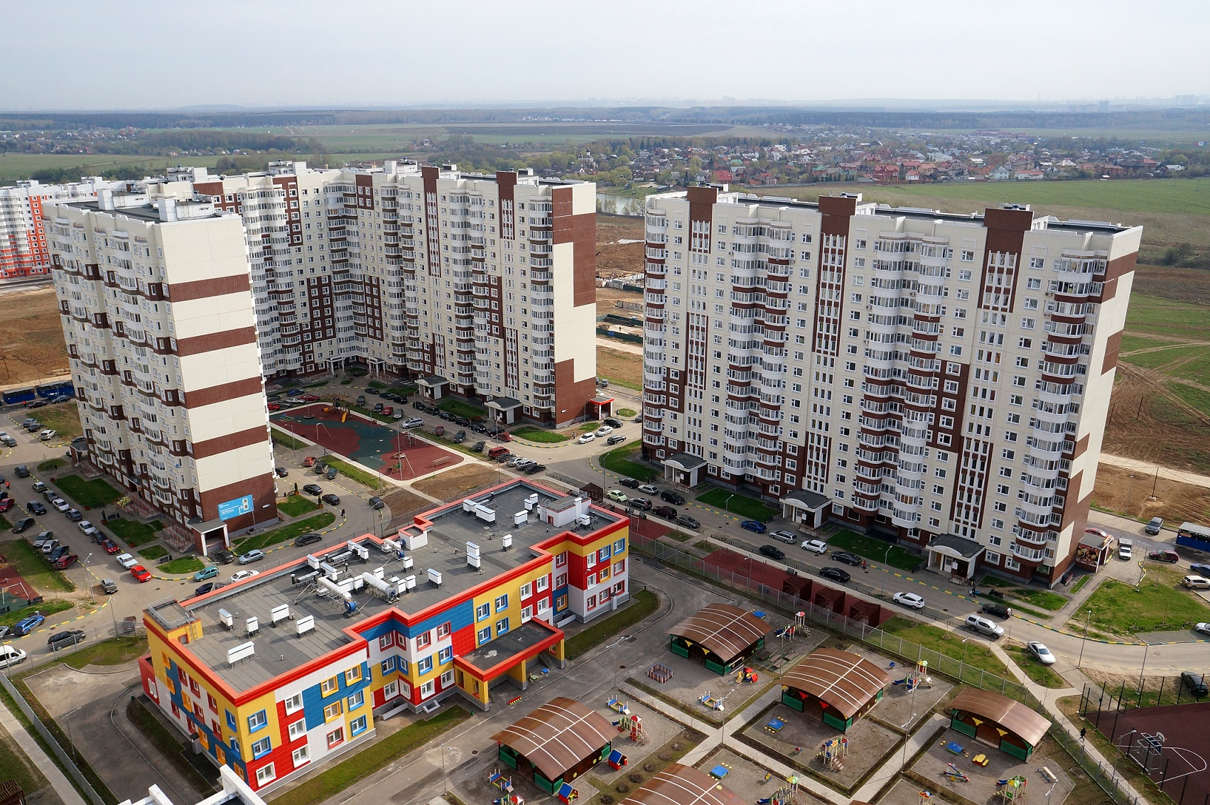 Vatutinki, Central Microdistrict